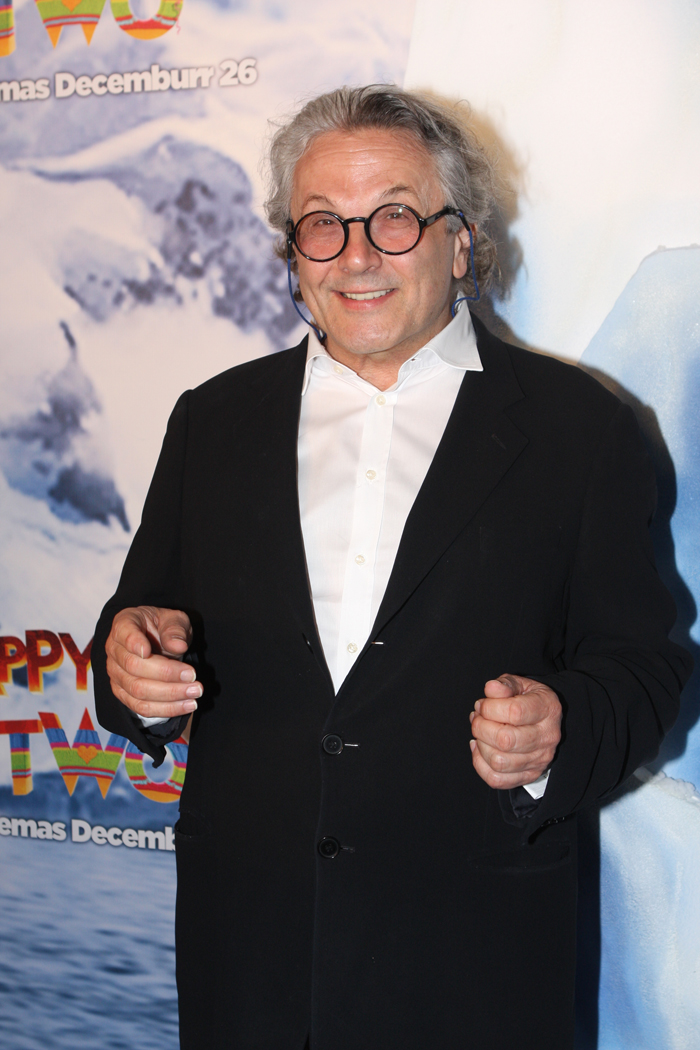 George Miller at the Australian Premiere of Happy Feet Two in Sydney (release date December 15, 2011)